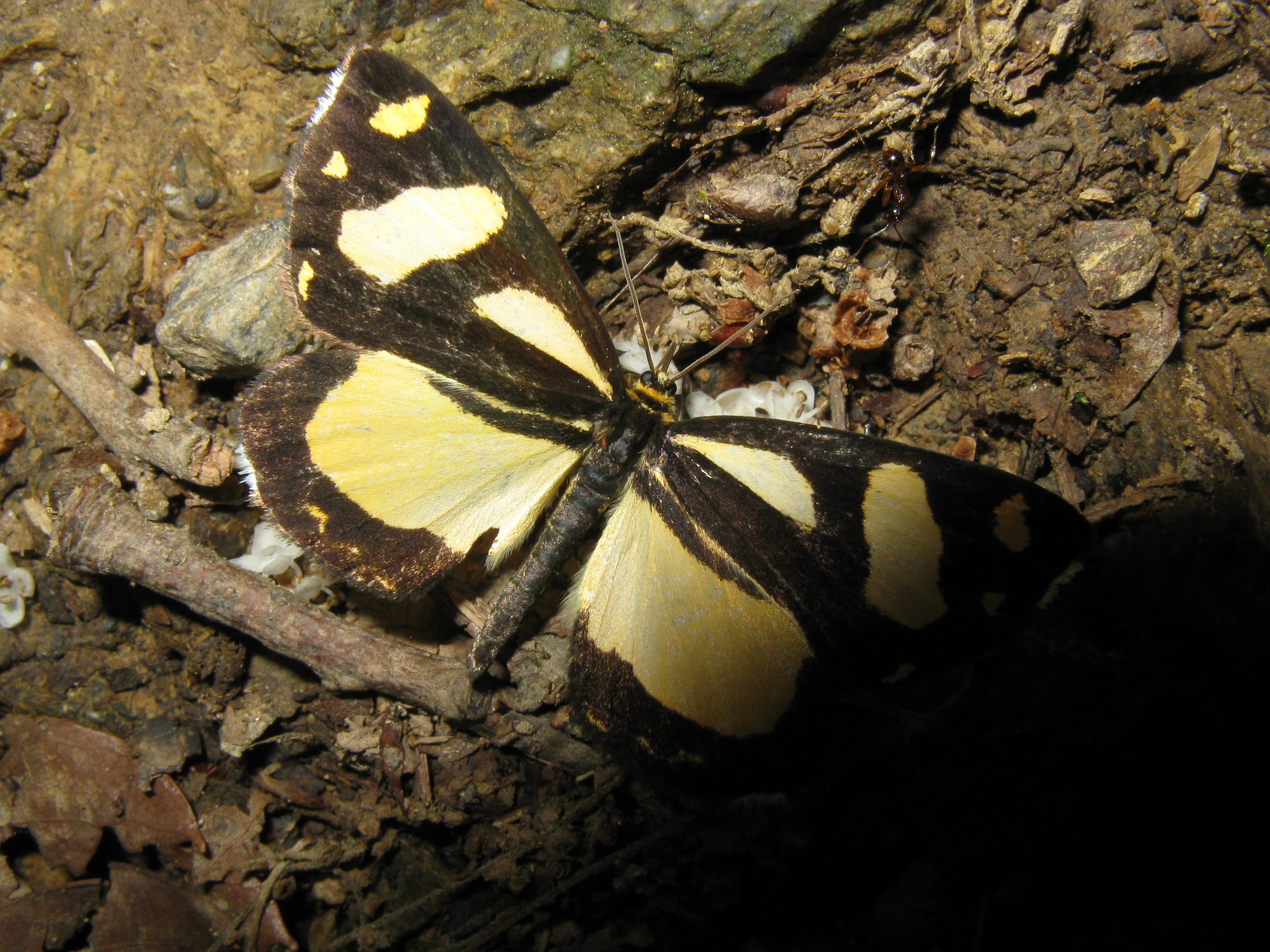 Scientific name Psychostrophia melanargia